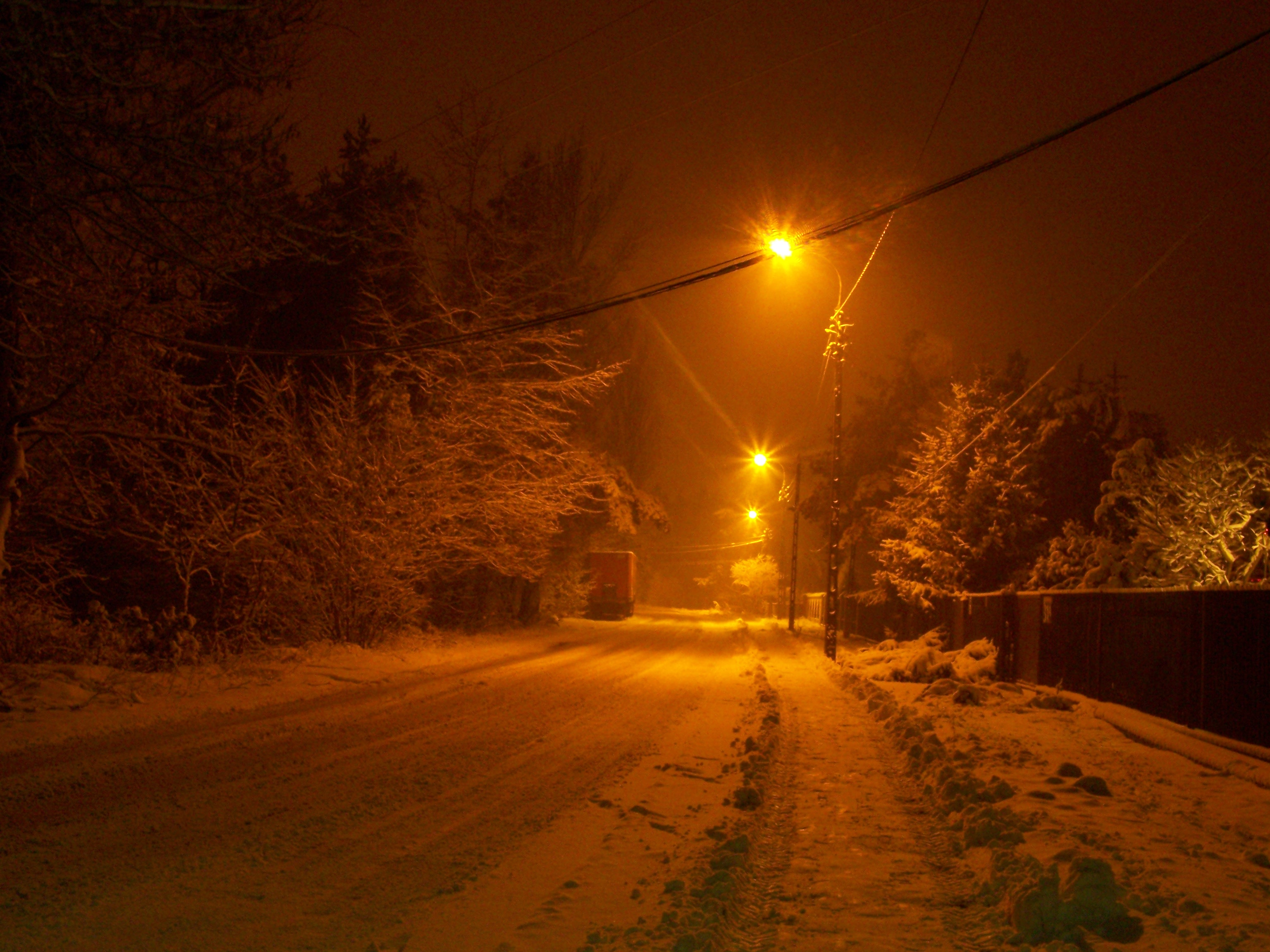 High pressure sodium lamps on the street in Celestynów, Poland.